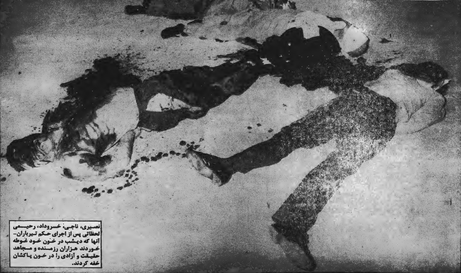 refah school execution - nasiri, rahimi and khosrodad . 15 feb 1979